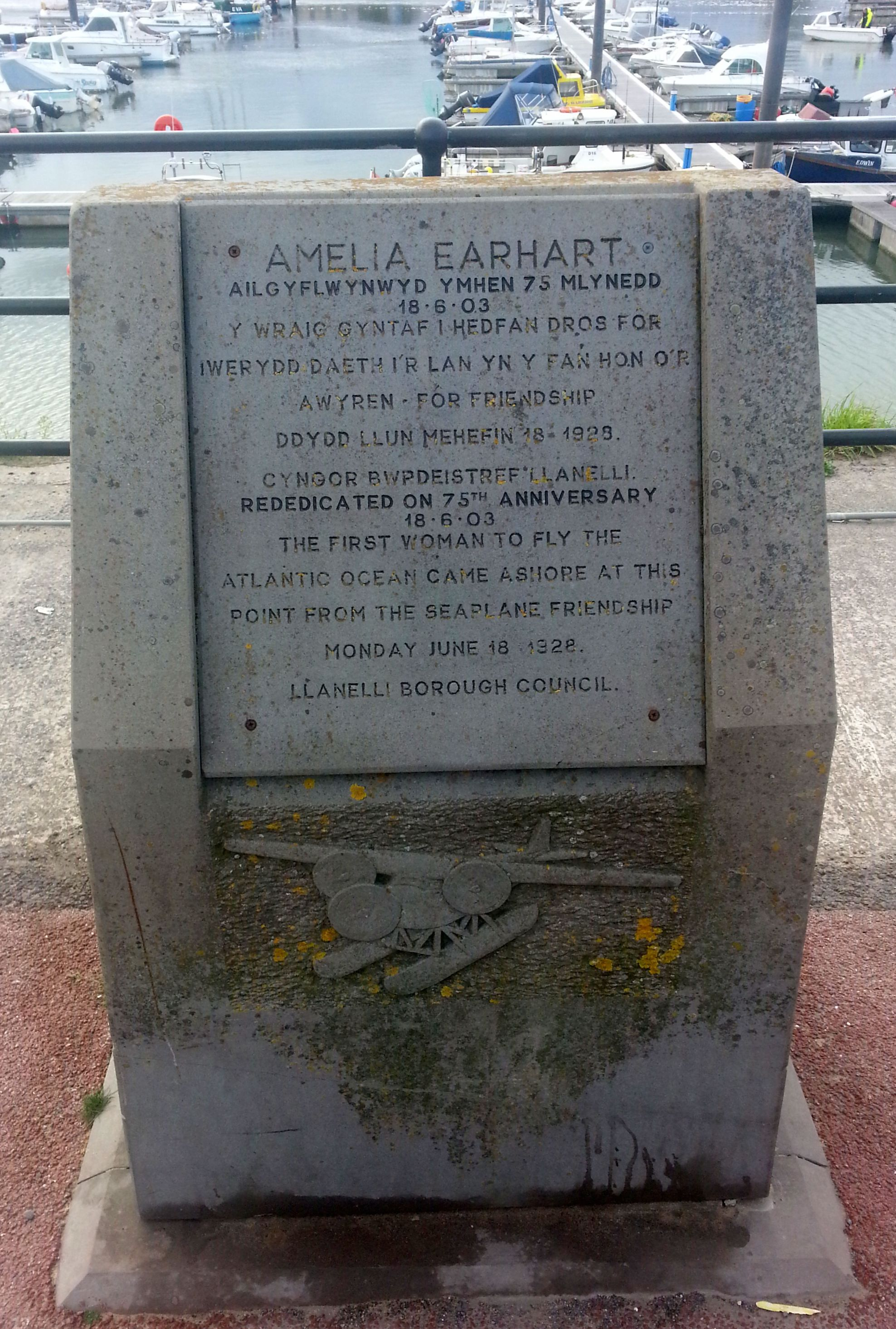 Commemoration Stone for Amelia Earhart's 1928 transatlantic flight, next to the quay side in Burry Port